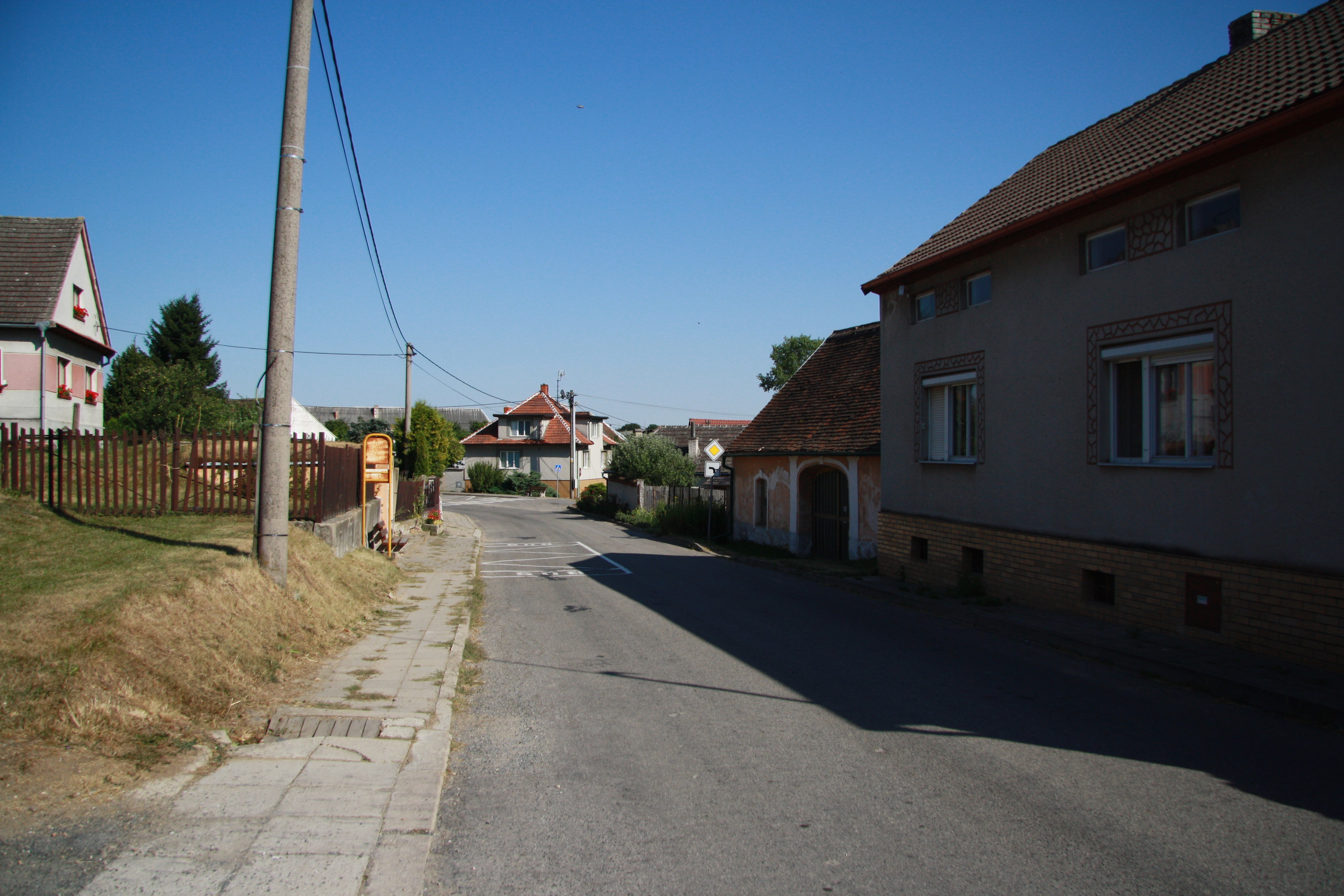 East part of Kojatice, Třebíč District.